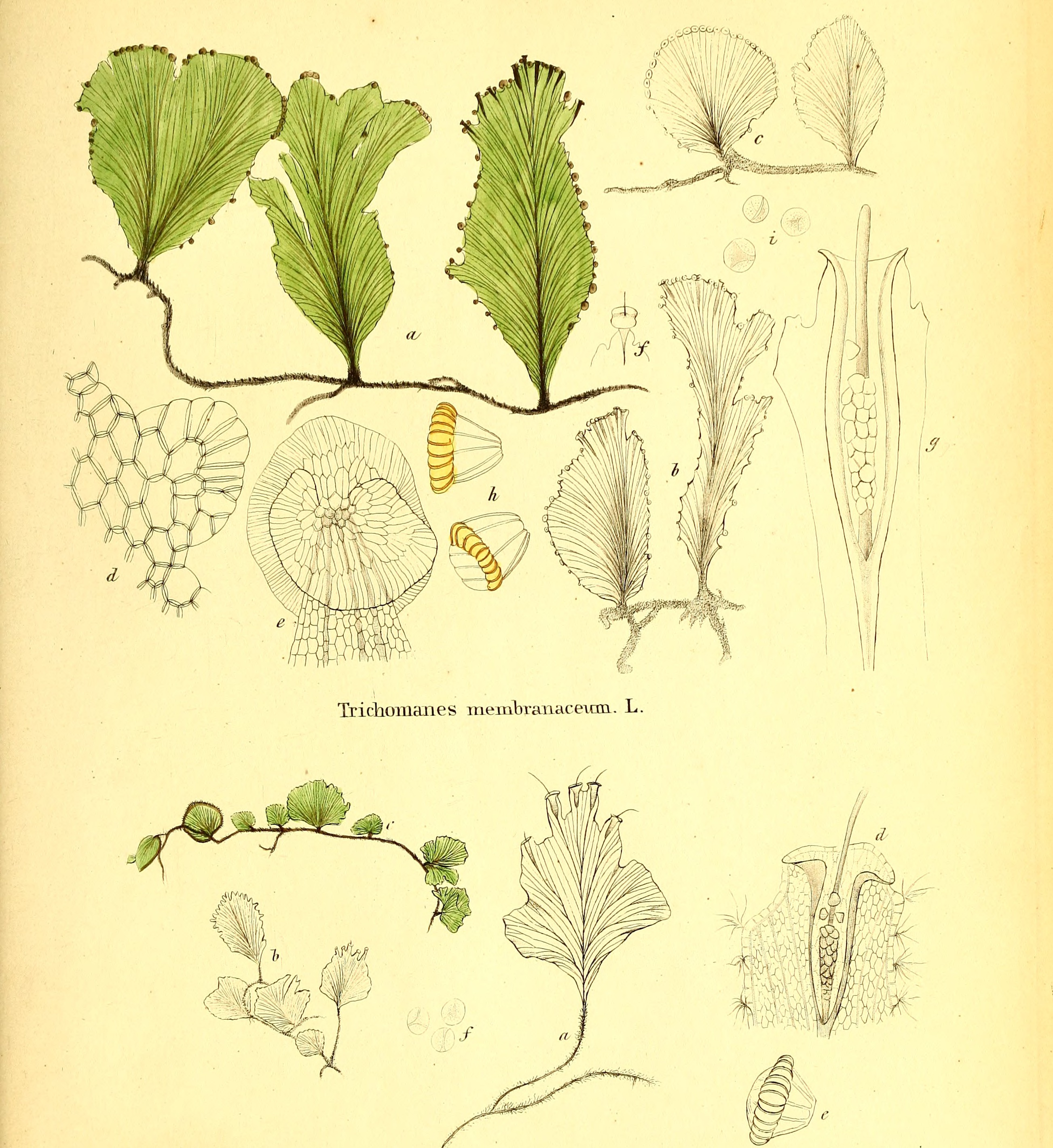 Title: Die Farrnkräuter in kolorirten Abbildungen naturgetreu Erläutert und Beschrieben Year: 1840 (1840s) Authors: Kunze, Gustav, 1793-1851 Subjects: Ferns Publisher: Leipzig, E. Fleischer Text Appearing Before Image: Tab.LXXXVm. Text Appearing After Image: Tricliomaiies splienoicles. iCze.